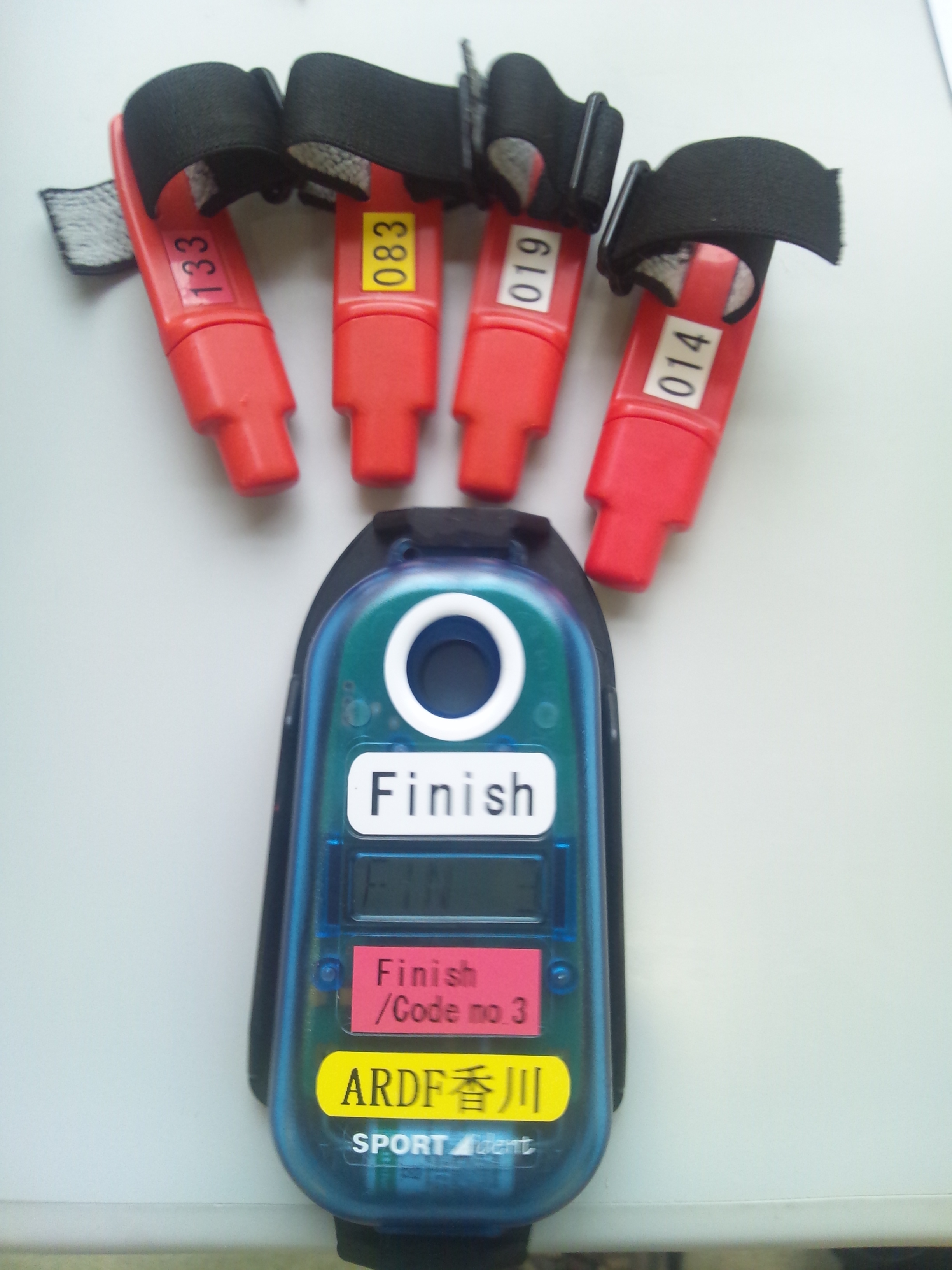 SI electronic Card System (ARDF Kagawa, JAPAN)